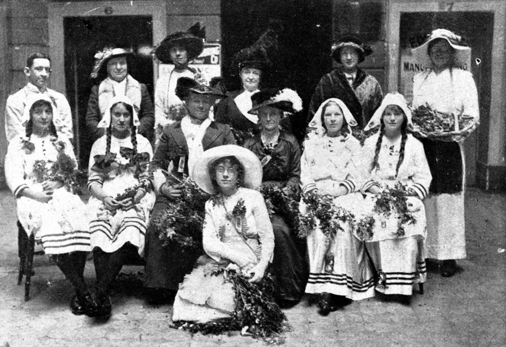 Daphne Mayo participating in Wattle Day celebrations in Brisbane, 1914. Caption on photo: The ladies who attended the stall at the (old) Town Hall on Brisbane's second Wattle Day, 24 July 1914. Daphne Mayo, dressed as a wattle maid, is in the foreground, centre. The Mayoress of Brisbane and the Central Committee of the Queensland Wattle Day League are also in the group. (Information taken from: the Queenslander, 1 August 1914, p.25).